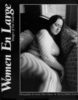 Cover of Women En Large (1994)